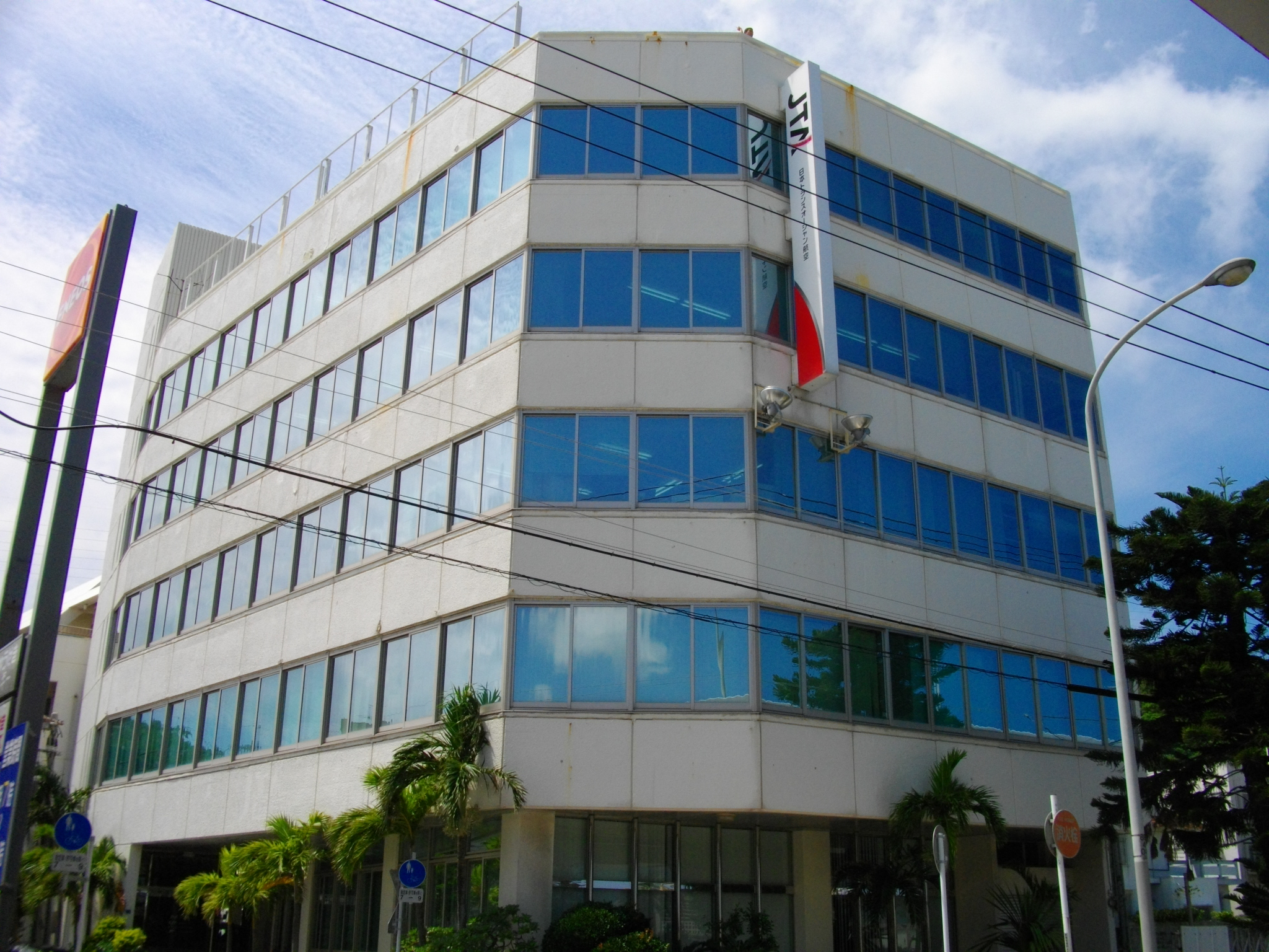 Japan Transocean Air Head Office